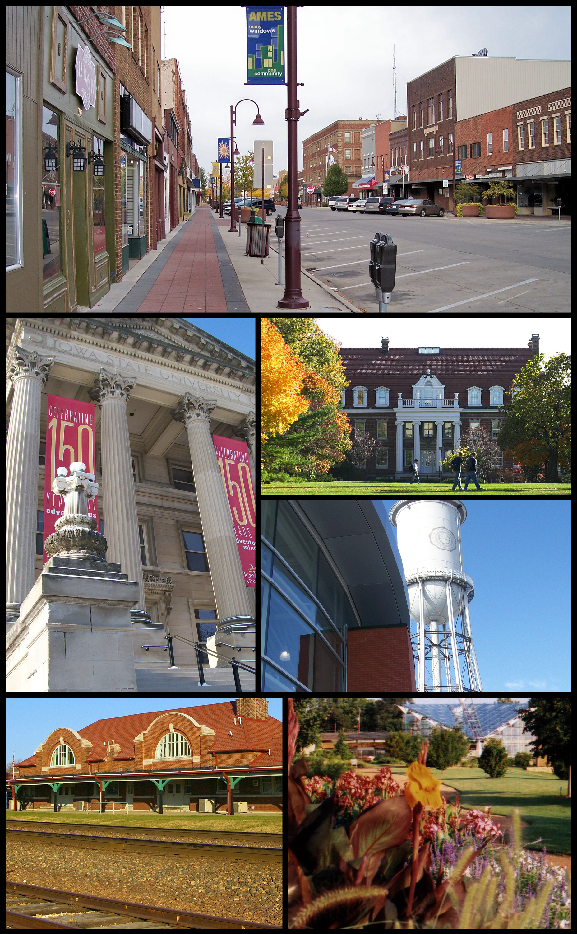 Montage of Ames, Iowa.